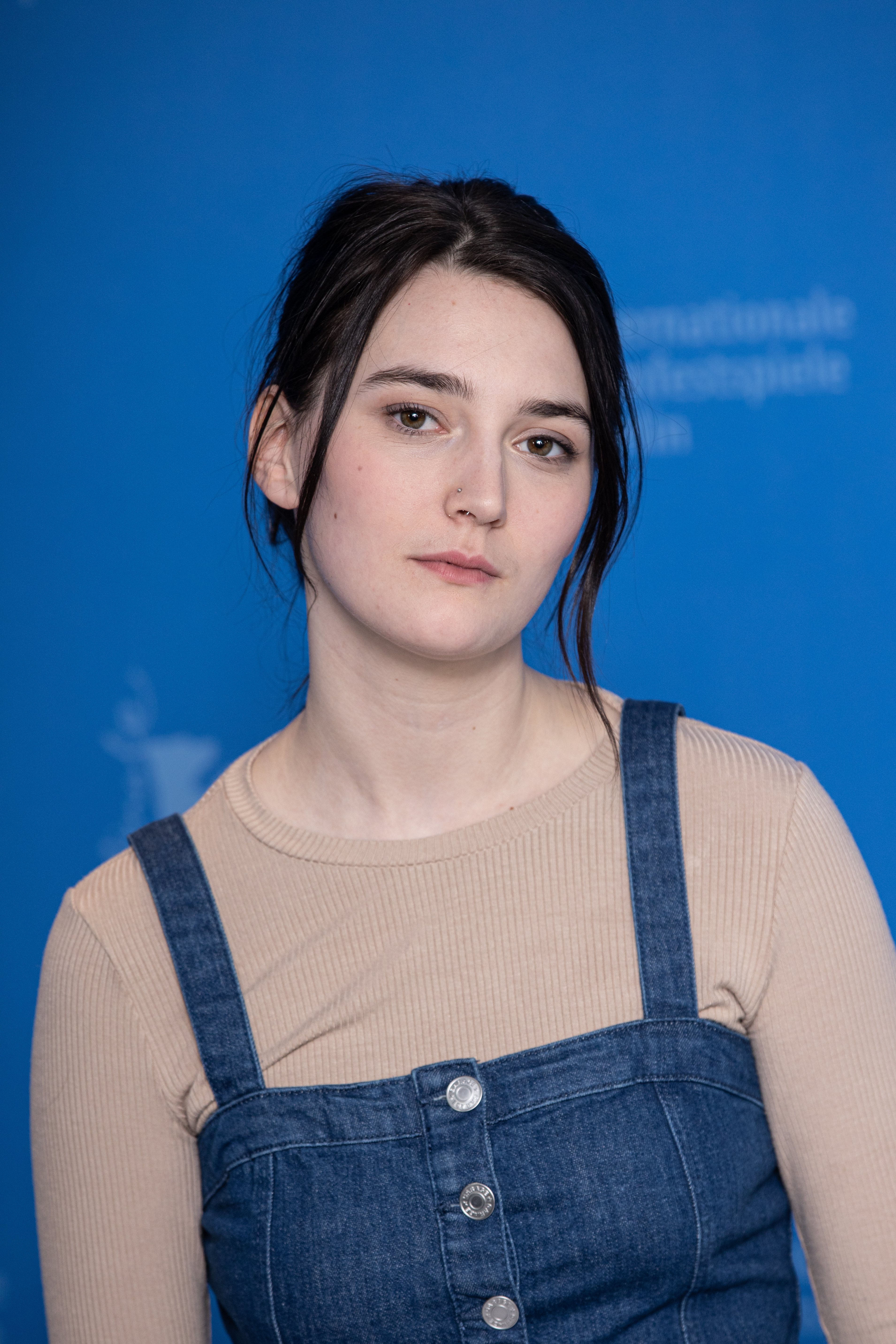 Actress Sidney Flanigan at the Berlinale 2020